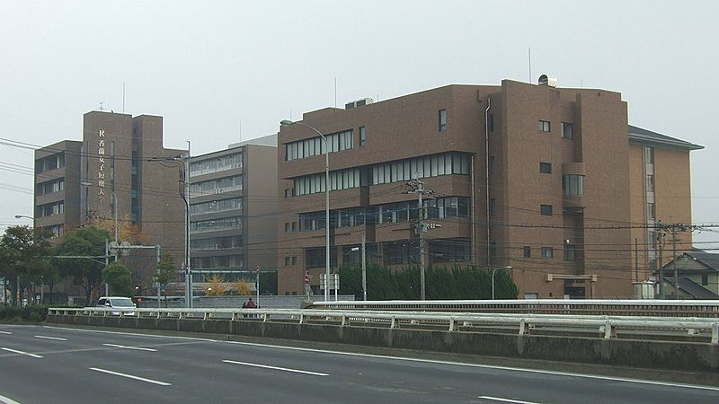 Koran Women's Junior College, Minami Ward, Fukuoka City, Fukuoka, Japan.